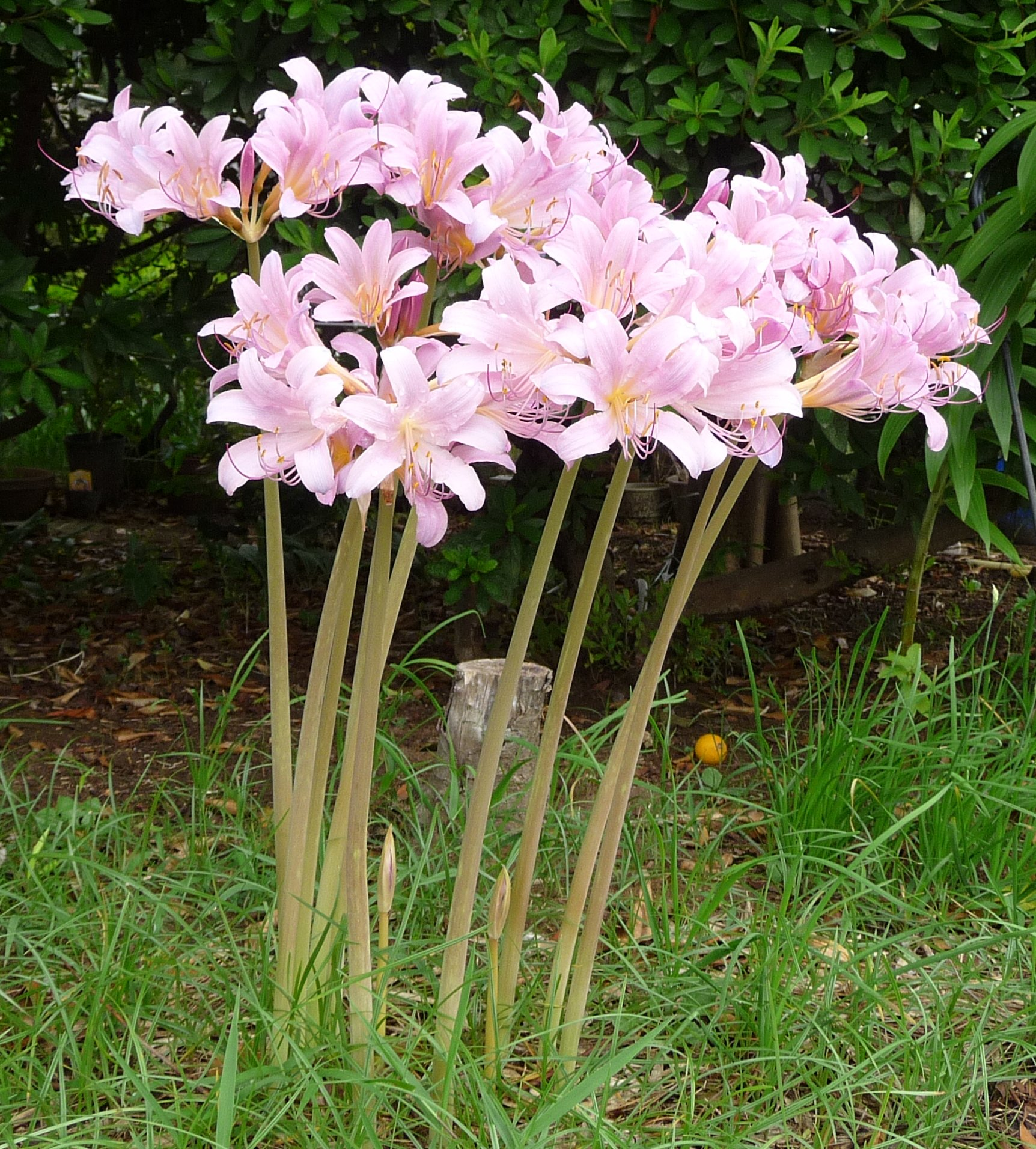 Lycoris squamigera. Zoom in to see two low profile bud near to ground. Chiba Japan on 2008 Aug., 24